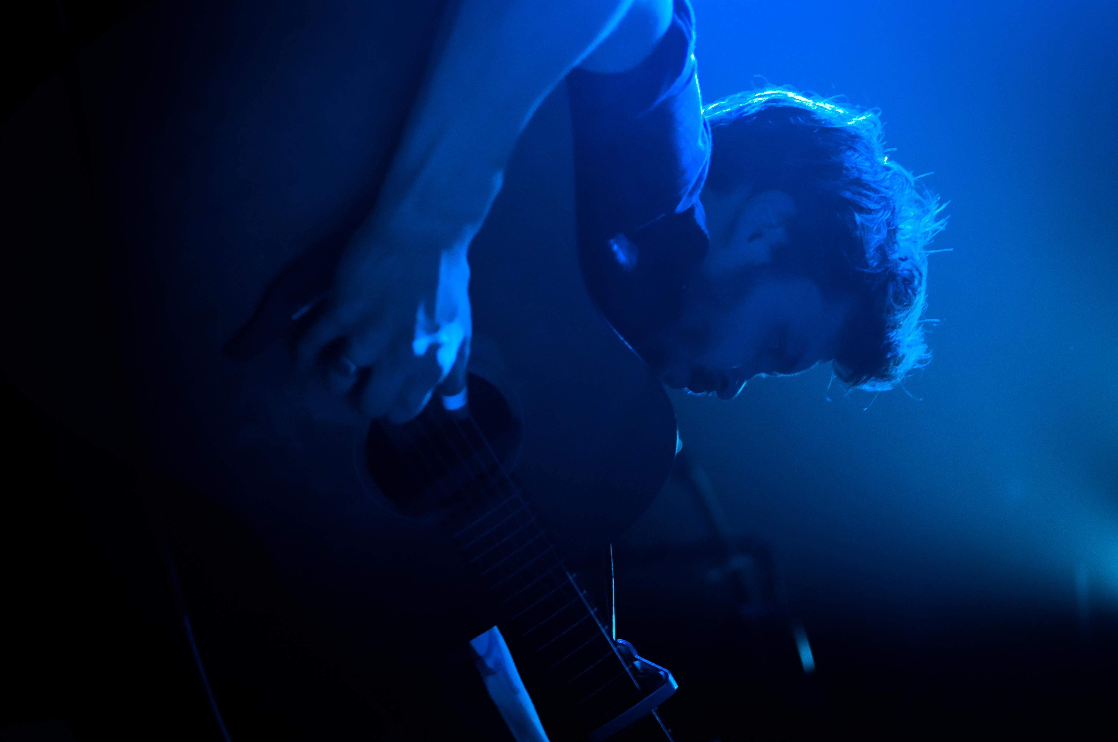 The Tallest Man on Earth V